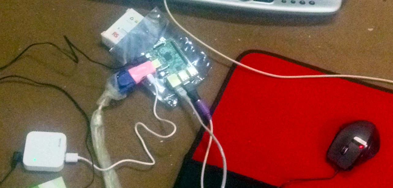 Raspberry pi in use